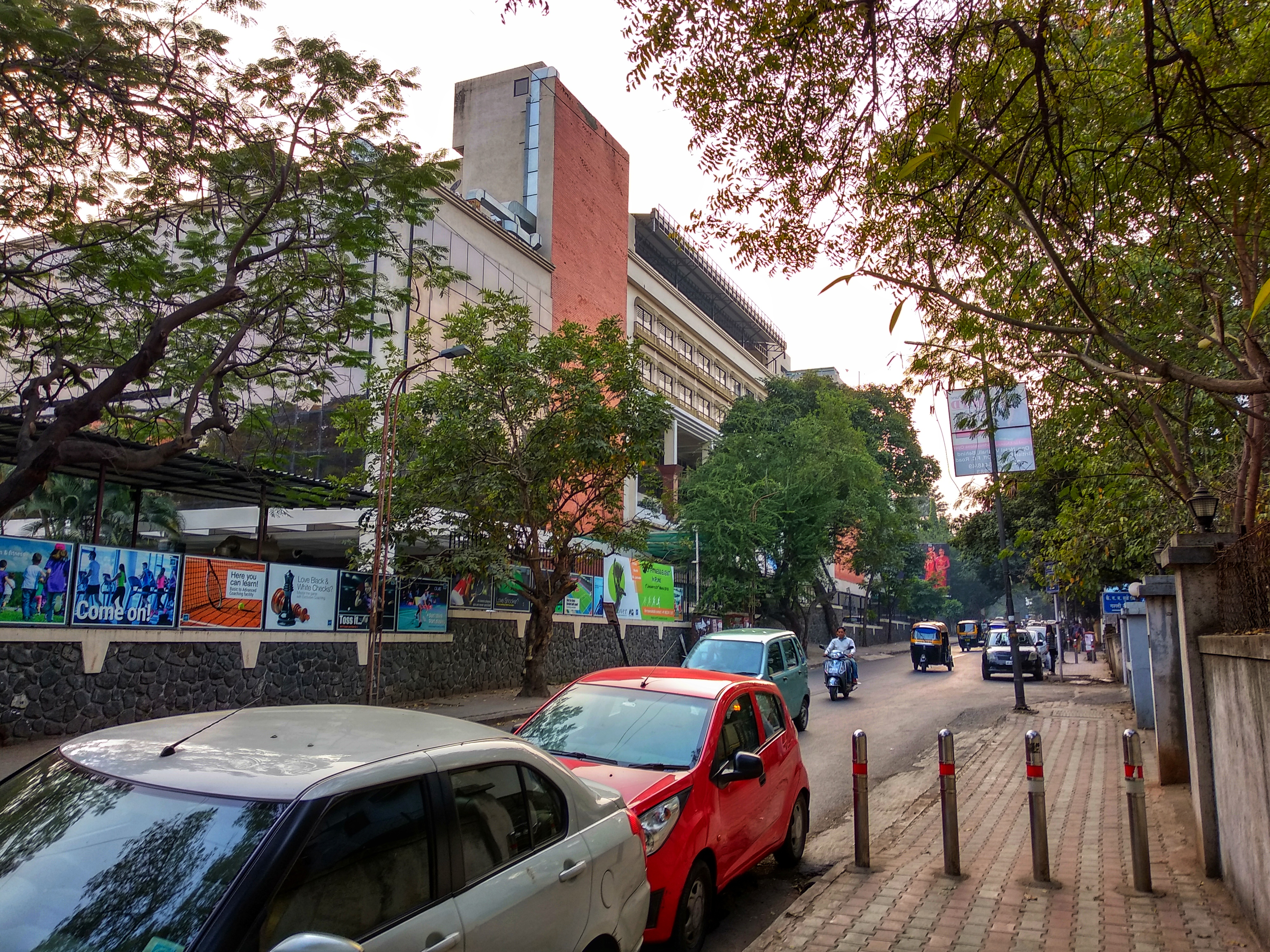 Bhandarkar Road in the evening and PYC Hindu Gymkhana Main Building in the background